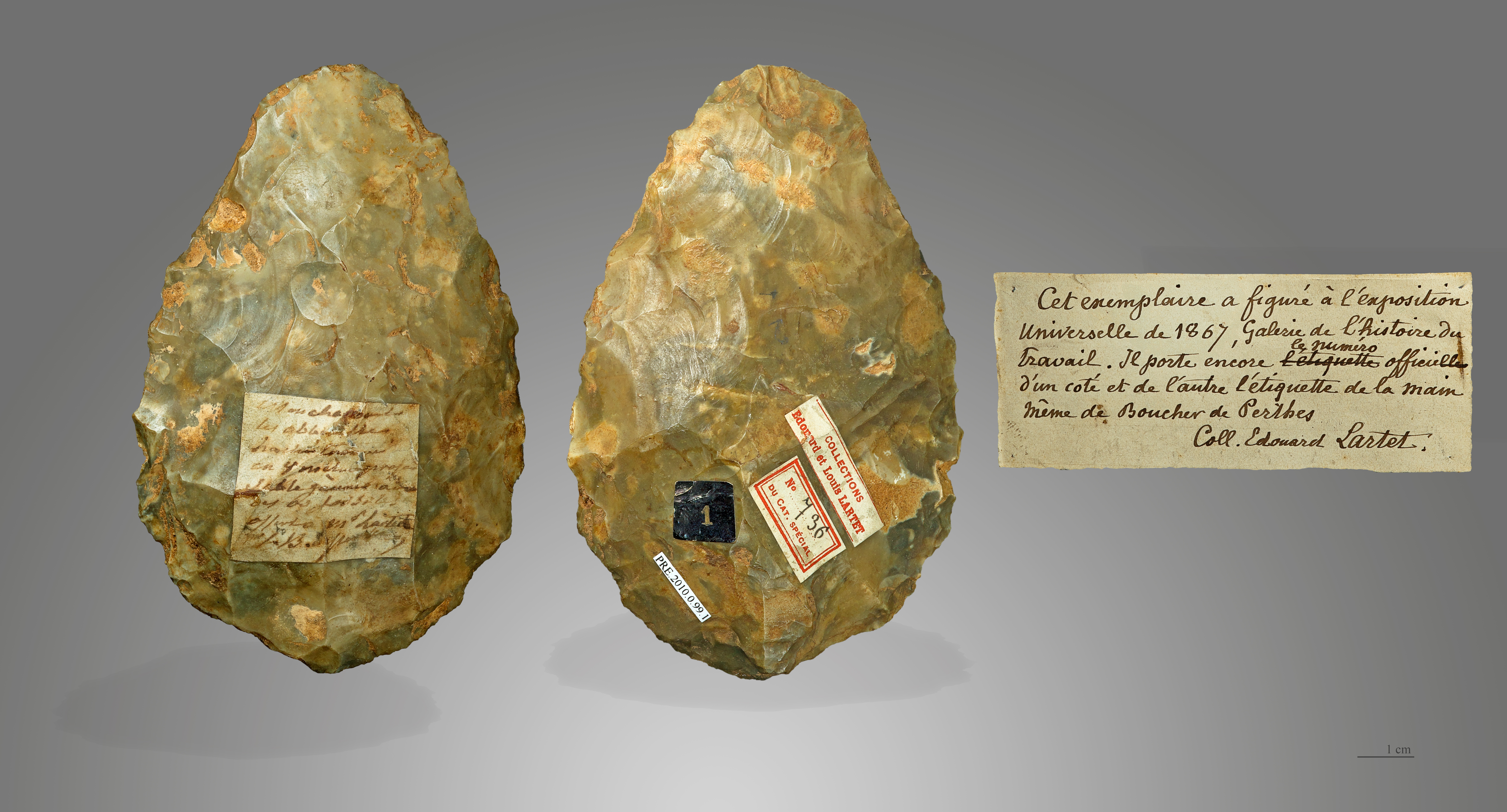 Flint Biface Stage : Acheulean (to -500000 Ma from - 300 000 years Before the Current Era) Locality : Menchecourt-les-Abbeville, Somme, France. Former collection of Jacques Boucher de Perthes and Edouard Lartet. Autograph note of Boucher de Perthes and Lartet. This specimen has figured in the Exposition Universelle from 1867 in Paris. Different views of the same specimen.